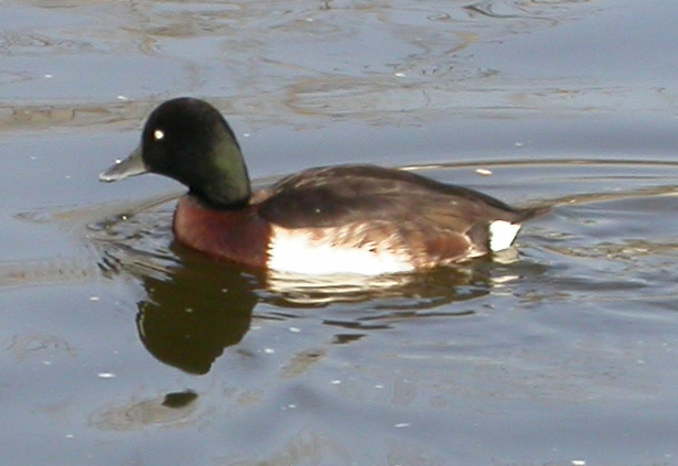 Baer's Pochard Aythya baeri male, Beijing Zoo